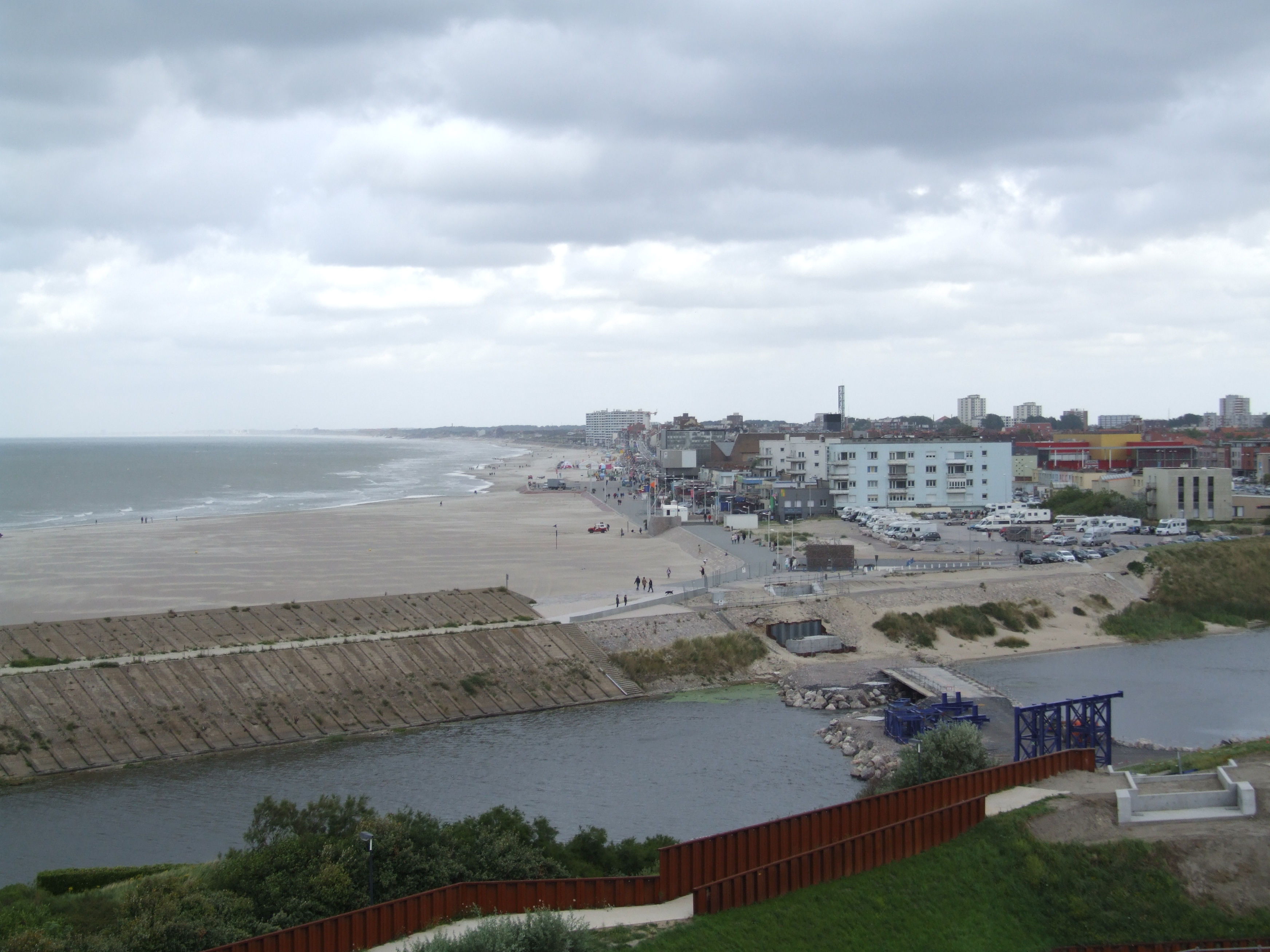 Blick vom FRAC Nord-Pas de Calais auf Malo-les-Bains